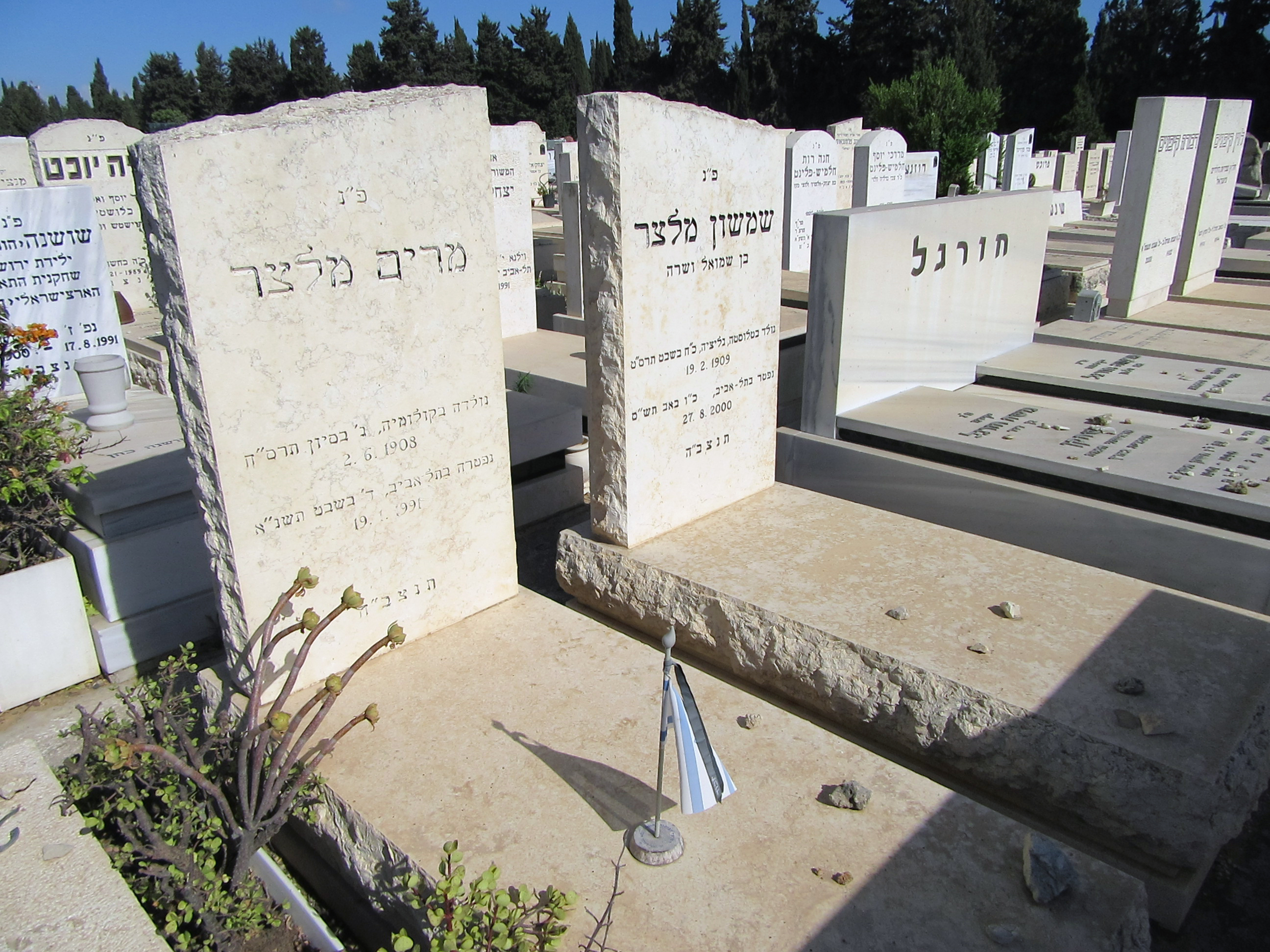 Grave of Miriam and Shimshon Melzer